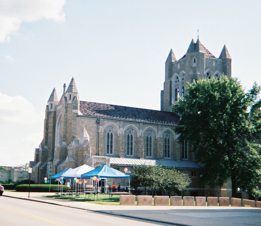 Blessed Sacrament Cathedral (Roman Catholic), 300 North Main Street, Greensburg, Pennsylvania. Built: 1928. Architects: Comes, Perry, and McMullen.